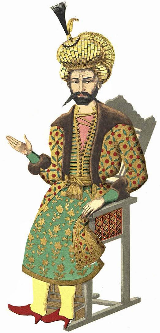 King Erekle I of Kakheti